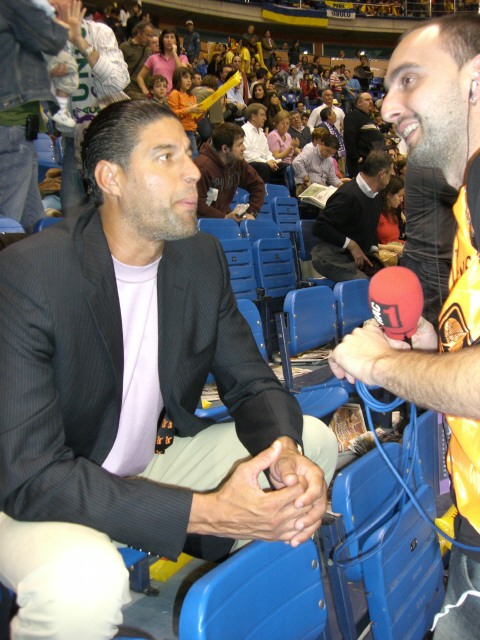 José Rafael "Piculín" Ortiz.